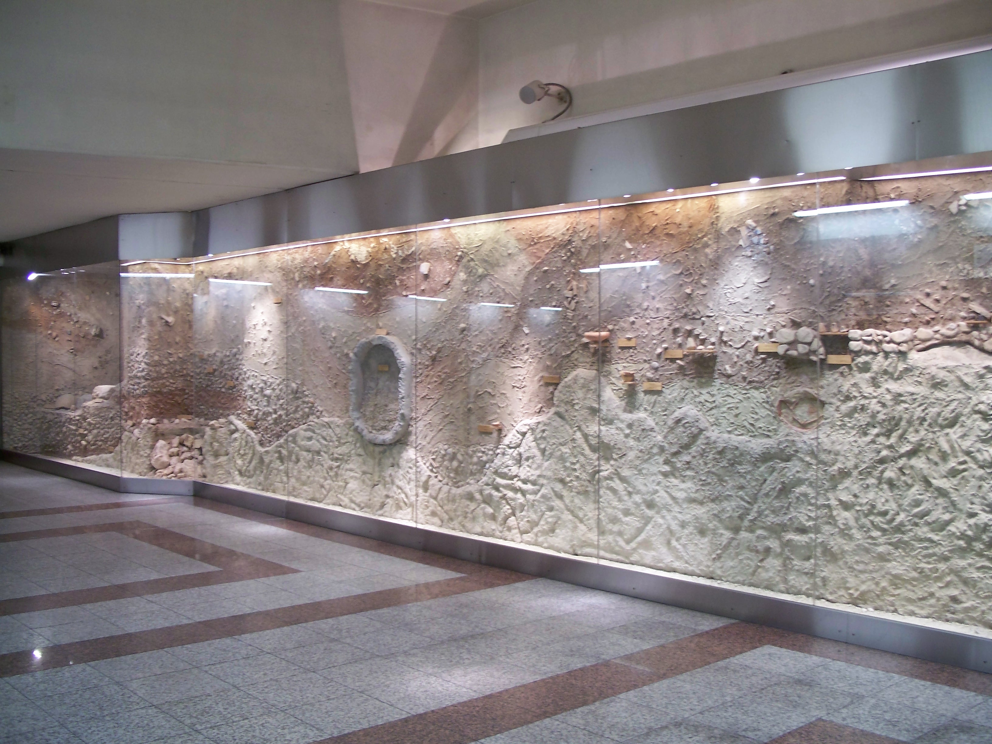 Section of the ground on display at Dafni station of Athens Metro system, showing stratification from various historical periods.